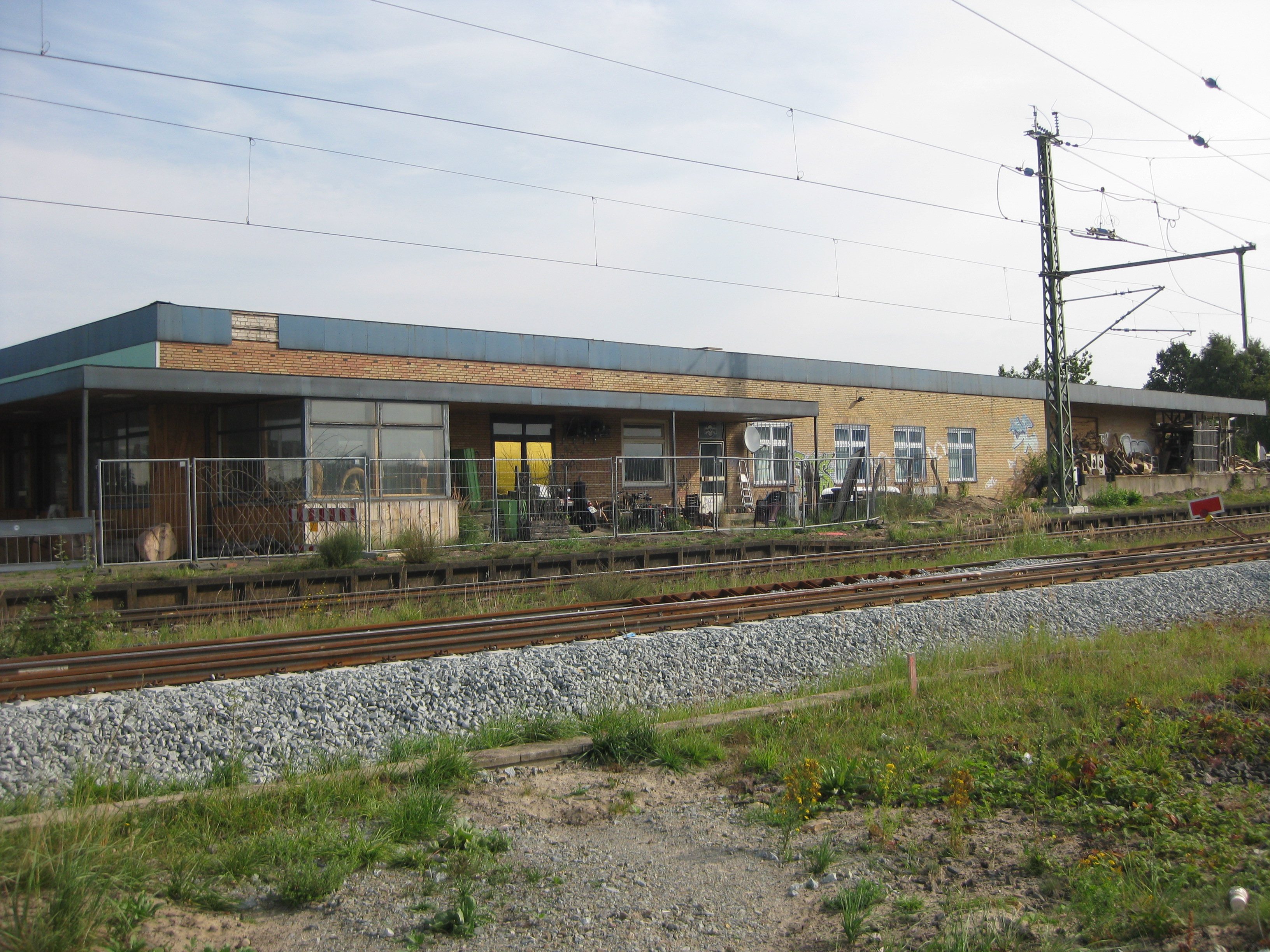 former train station at Danishburg, district of Lübeck